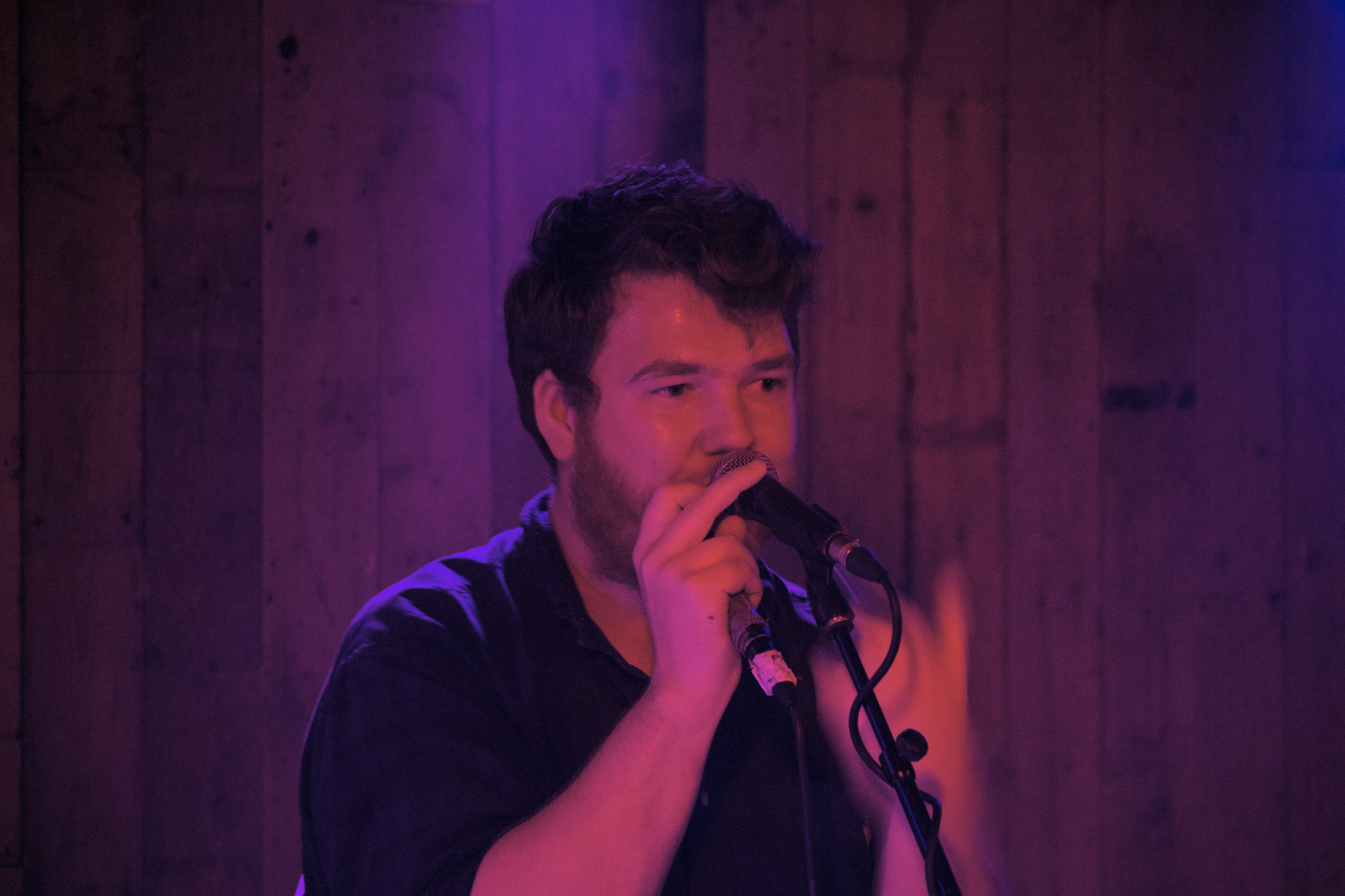 Performance by Chad Valley at Paint it Black at The Waiting Room in Stoke Newington.